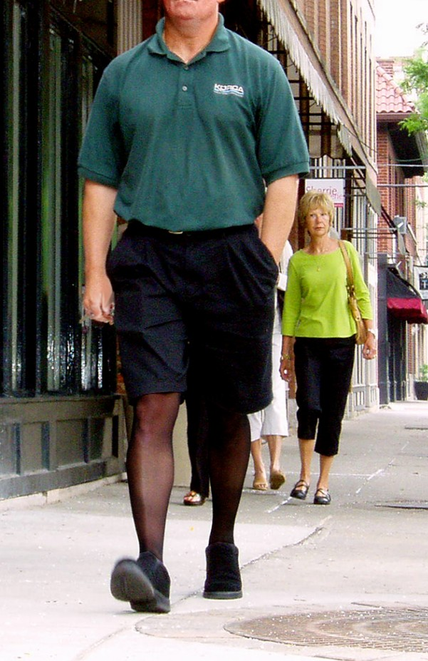 Male pantyhose, or "mantyhose" (in this case, ActivSkin Style A577 in sheer black)